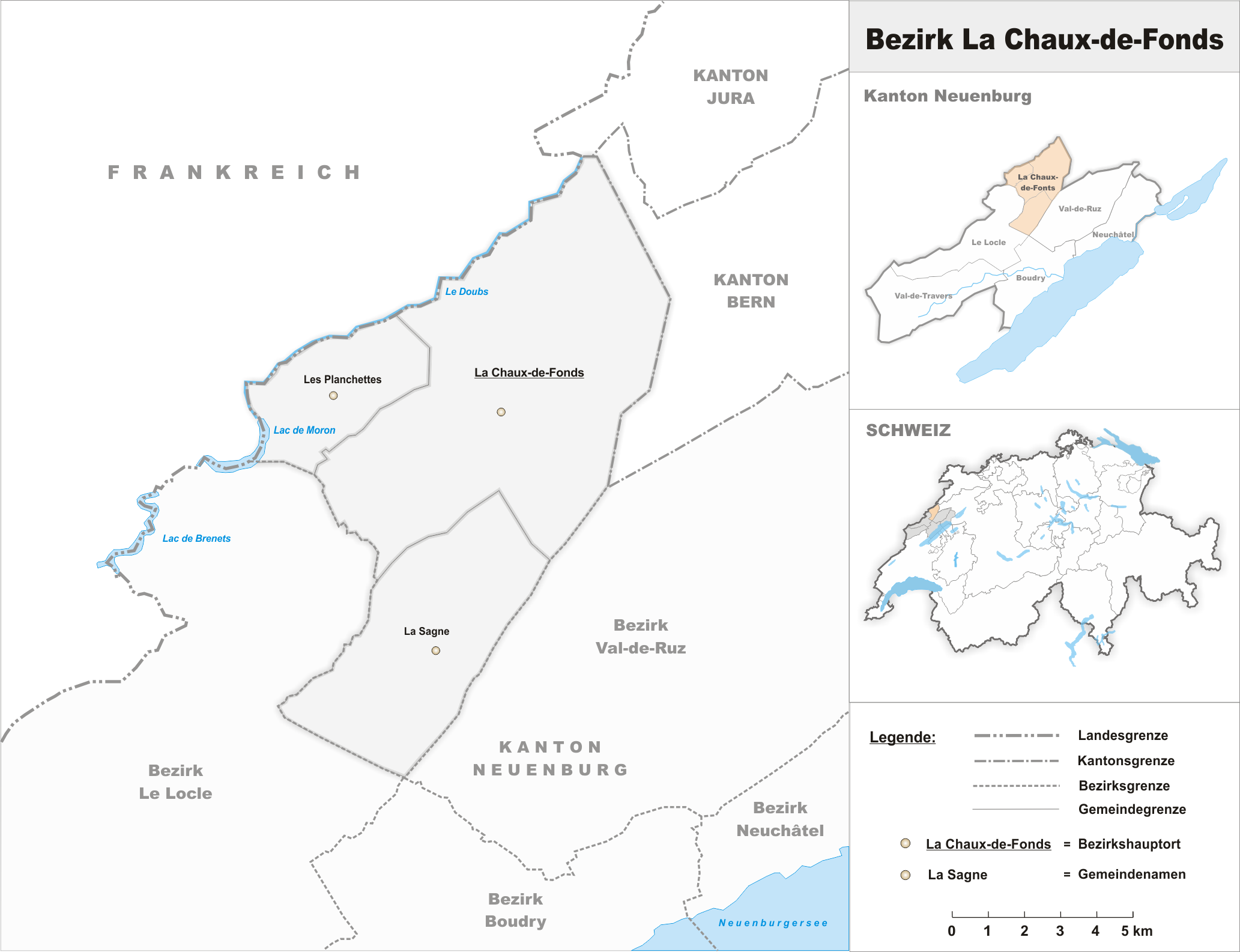 Municipalities in the district of La Chaux-de-Fonds